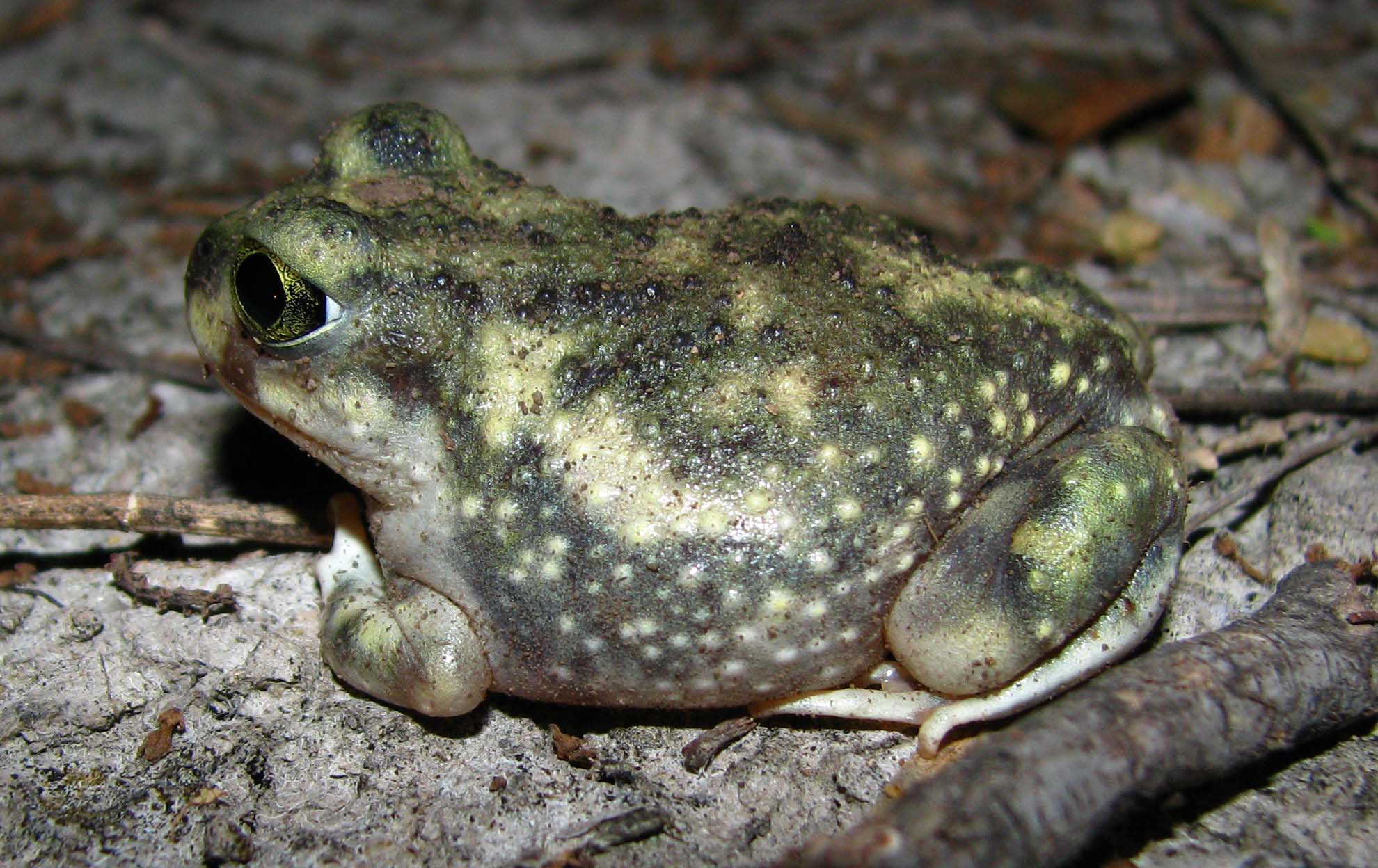 Couch's spadefoot toad (Scaphiopus couchii). CDFW photo by Dave Feliz.